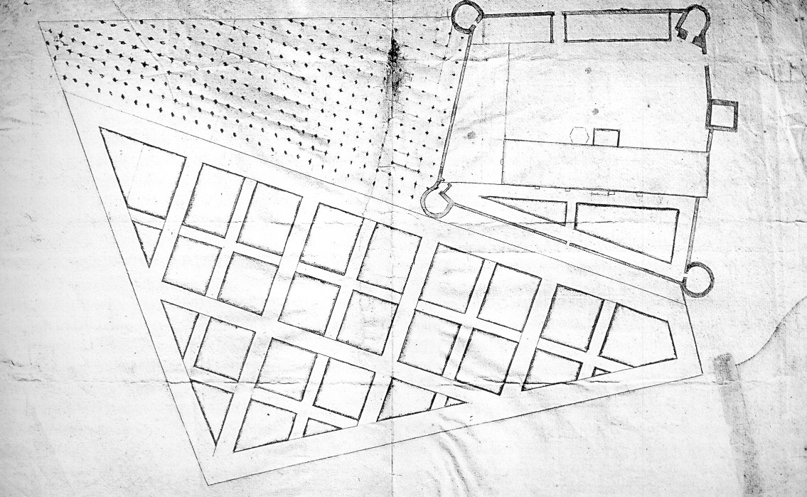 Ground-plan of the city castle area Potsdam in the middle of 14th century